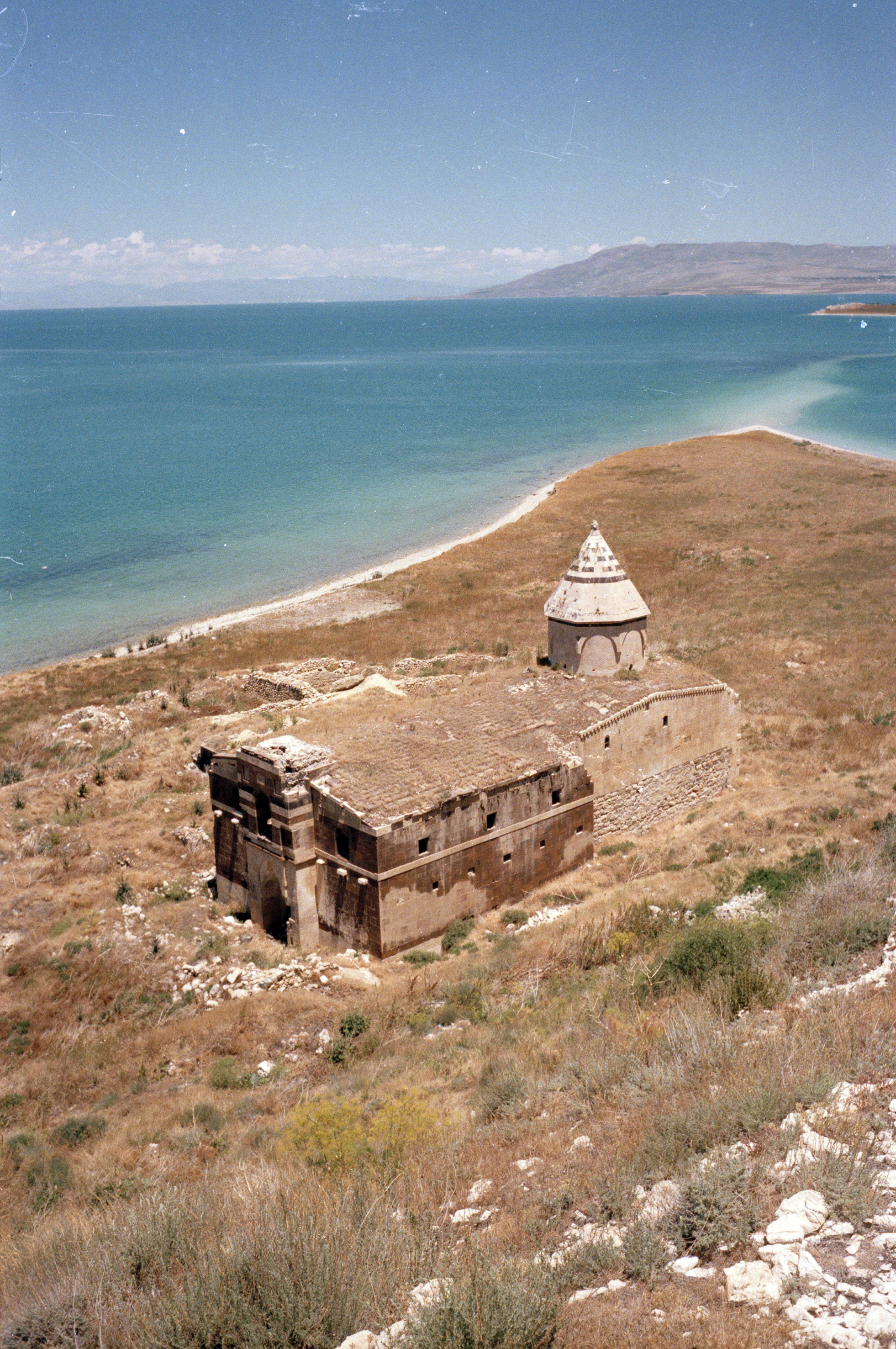 The 15th century Armenian monastery of Ktuts on Lake Van in the Armenian plateau (historical Armenia).